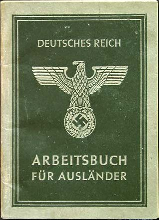 Arbeitsbuch für Ausländer (Employment Record Book for the foreigners). Front cover. German Reich, 1938–1945